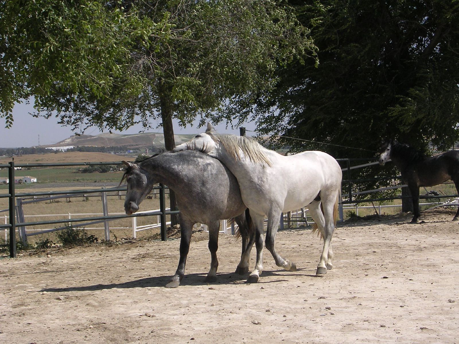 Letting the young colts play allows them to develop social skills. Fresco Tours According to all horses in the set are carthusian horses